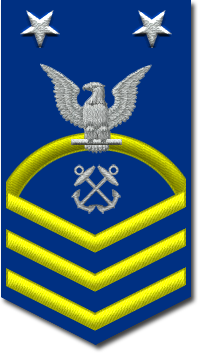 US Coast Guard Master Chief Petty Officer insignia